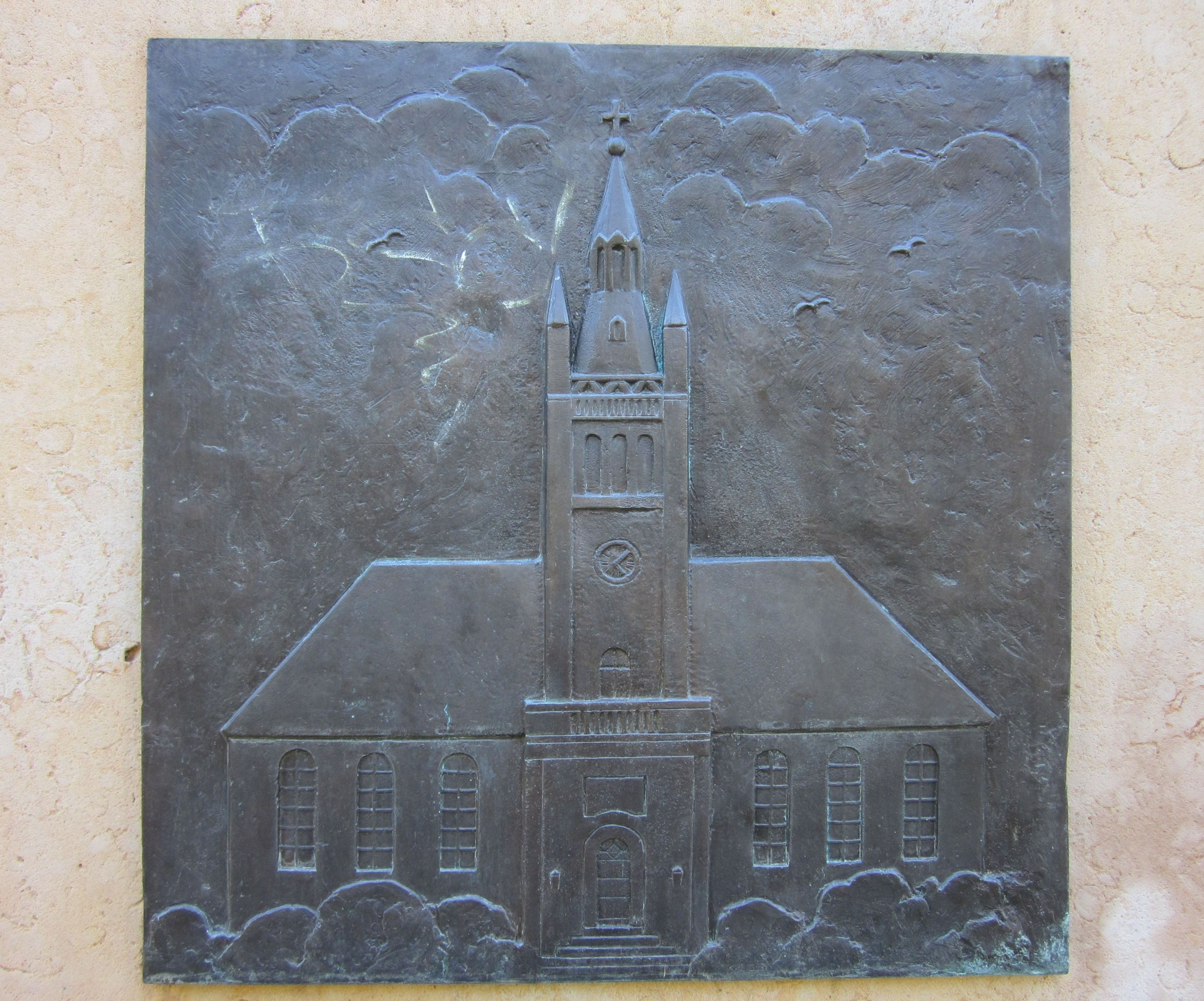 Relief depiction of the Luisenstädtische Kirche (damaged in WWII, demolished in 1964) at an information stele at the former site of the church in a green space on Alte Jakobstraße in Berlin-Mitte.